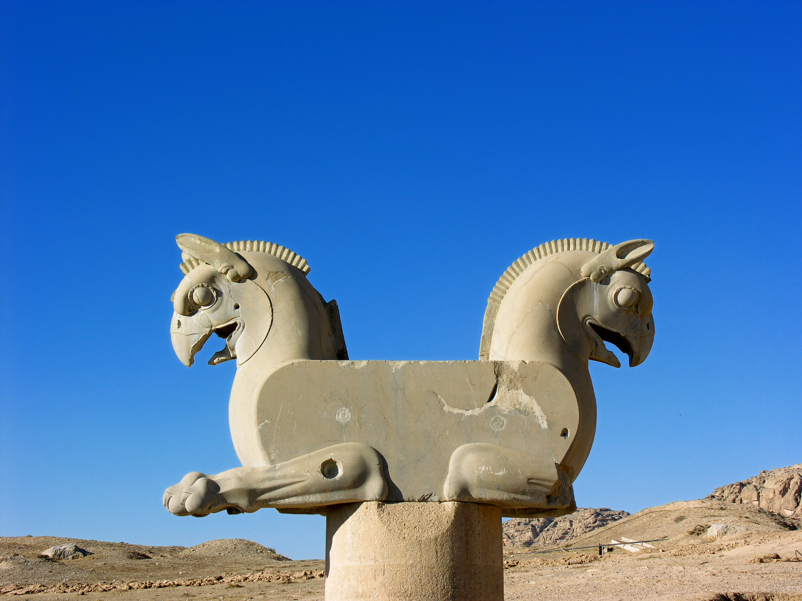 Iran, Griffins